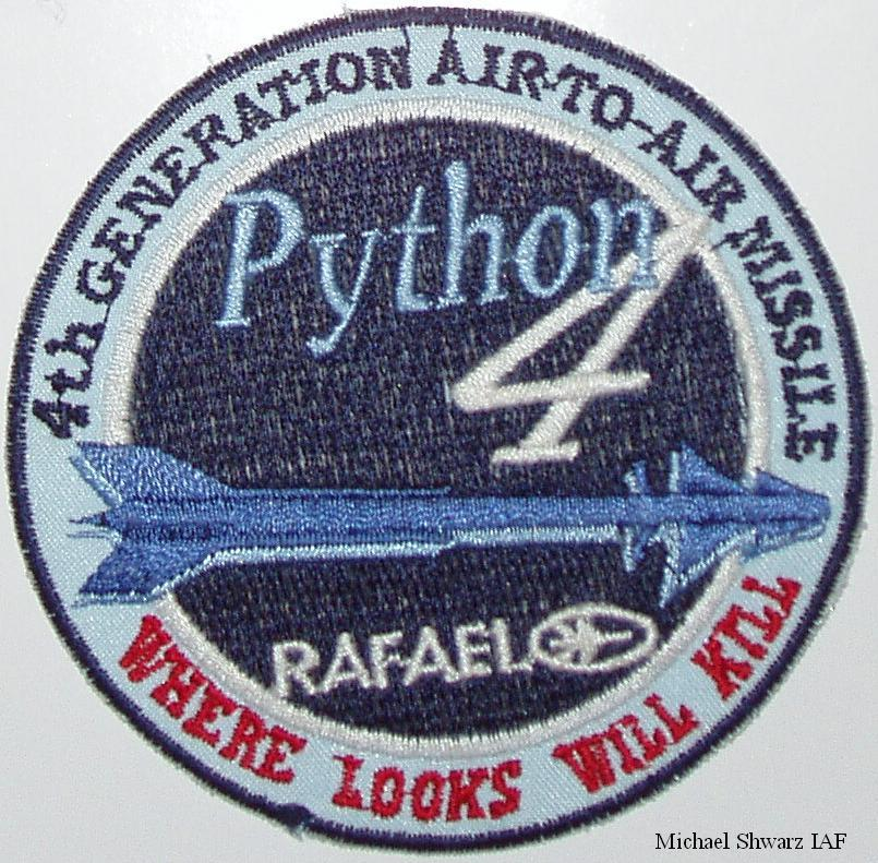 A Python 4 Patch worn by Israeli Air Force Groundcrew and Aircrew